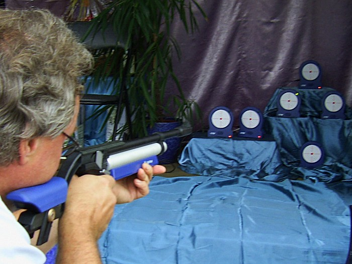 Laser-light rifle for sportshooting